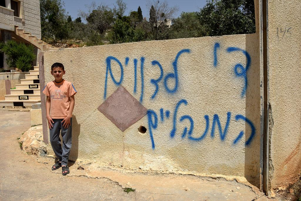 On the night of 17 April 2018, settlers entered the villages of a-Sawiyah and a-Lubban a-Sharqiyah, Nablus District, slashed the tires of 26 vehicles in each of the two villages and spray-painted graffiti on the walls of homes. Photo shows Muhammad Khdeir, who lives in a-Sawiyah, next to the graffiti “No more administrative orders” settlers spray-painted in Hebrew in the village. Photo by Salma a-Deb’i, B’Tselem, 18 April 2018.